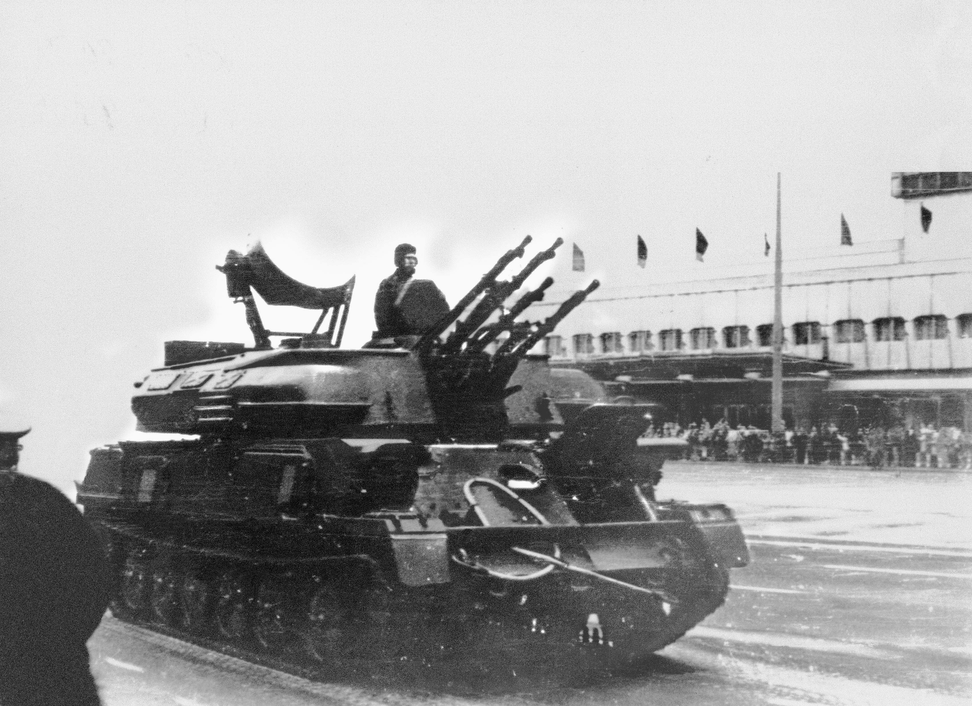 A right front view of a Soviet ZSU-23/4 anti-aircraft vehicle.